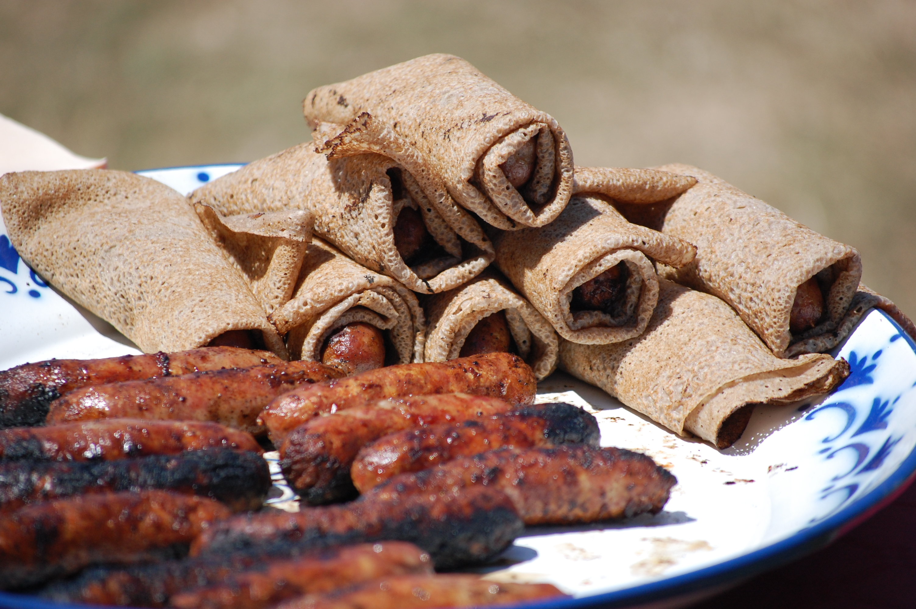 Some galette-saucisse, an eastern Brittany speciality